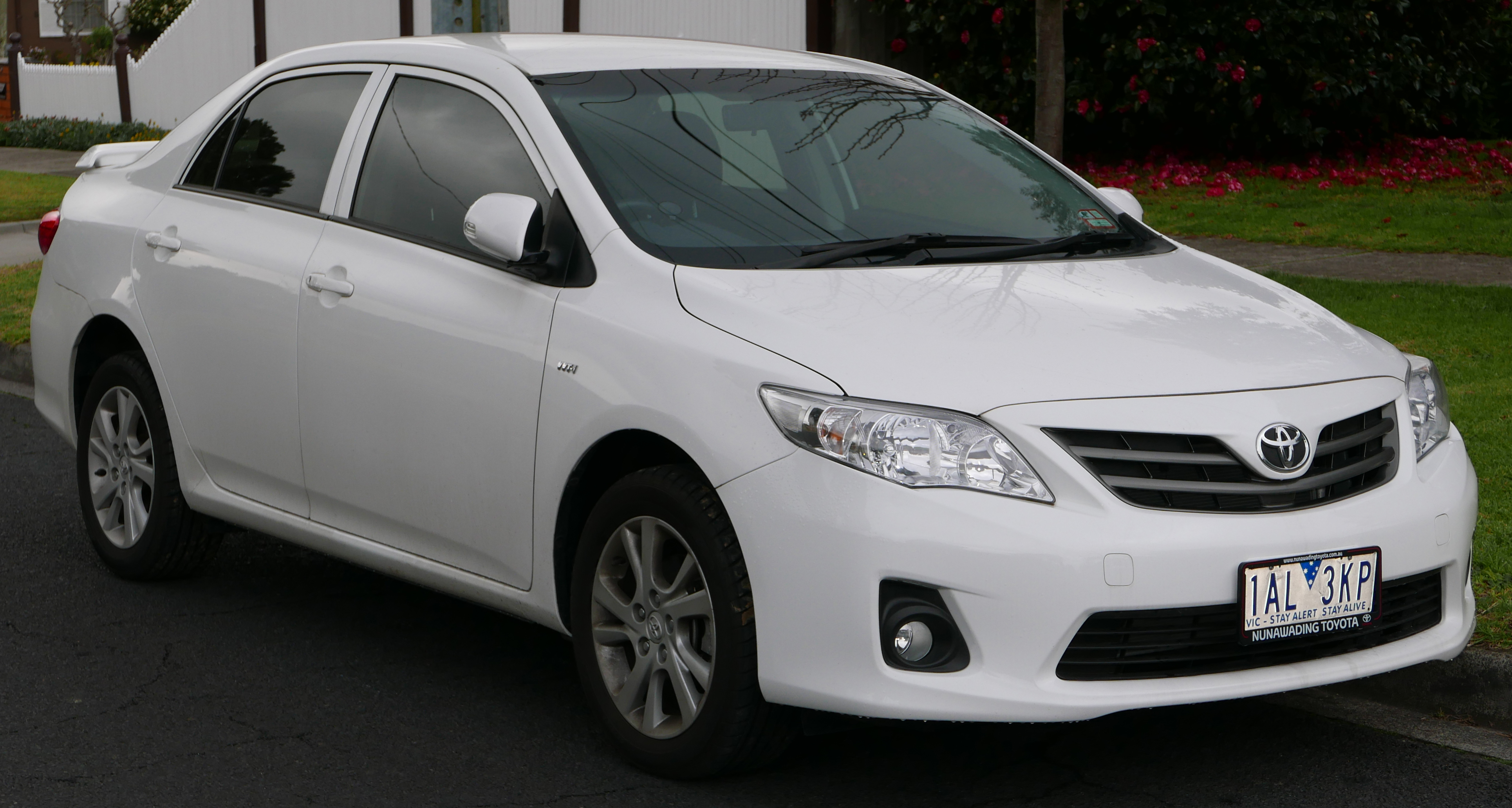 2013 Toyota Corolla (ZRE152R) Ascent Sport sedan. Photographed in Doncaster East, Victoria, Australia. Vehicle registration enquiry results Jurisdiction Victoria Registration 1AL3KP Chassis code JTNBU56E50J106219 Engine code 2ZRK806993 Compliance date 2013-07 Year of manufacture 2013